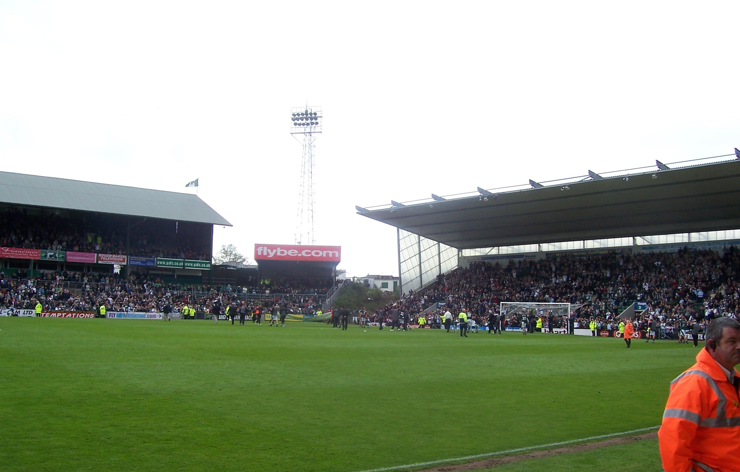 This photo was taken by Andrew Dolan